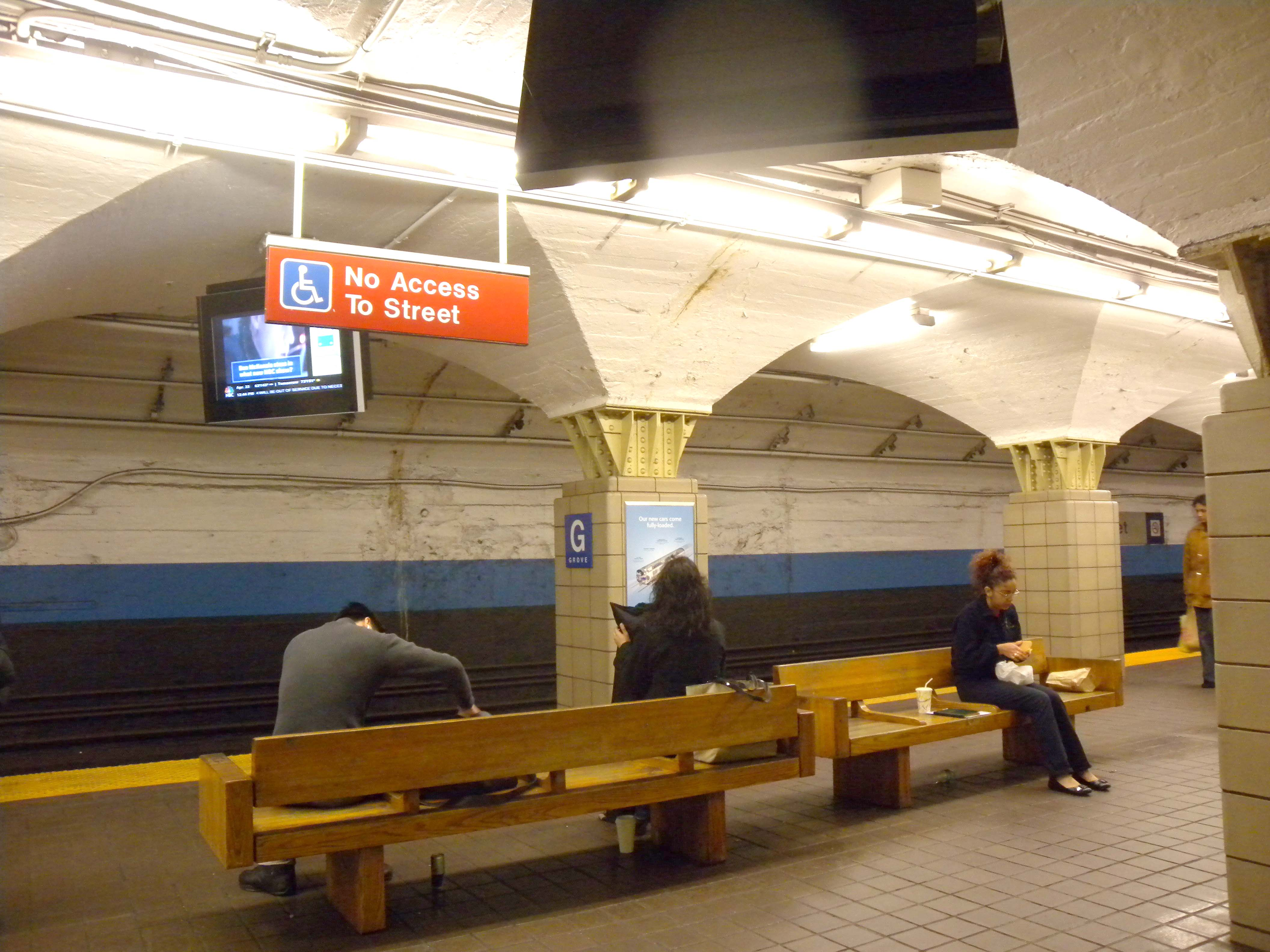 Looking southwest across platform of Grove Street PATH station. See also File:Pavonia PATH plat jeh.JPG